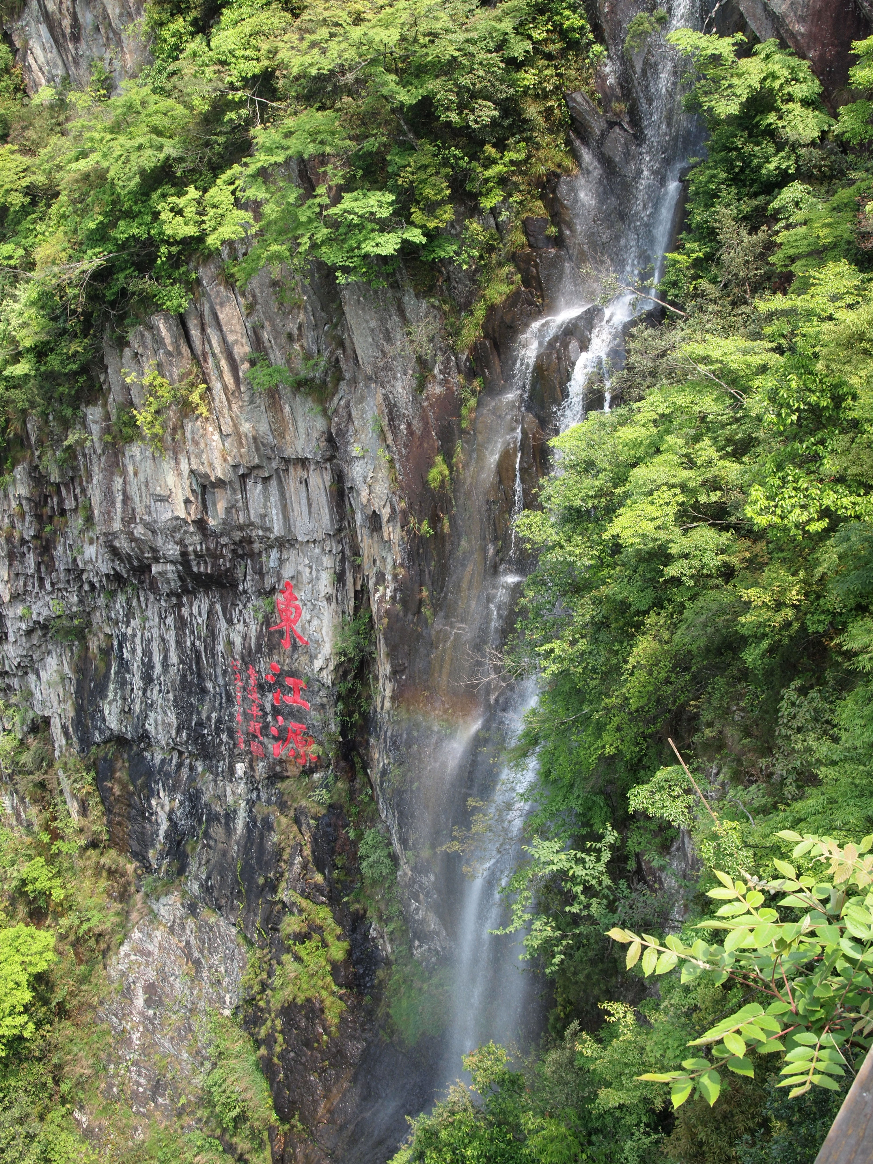 Mount Sanbai (三百山), source of the Dongjiang River. Calligraphy by Ye Xuanping